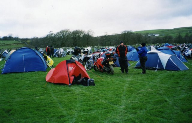 The 2005 Dragon Rally hill farm campsite